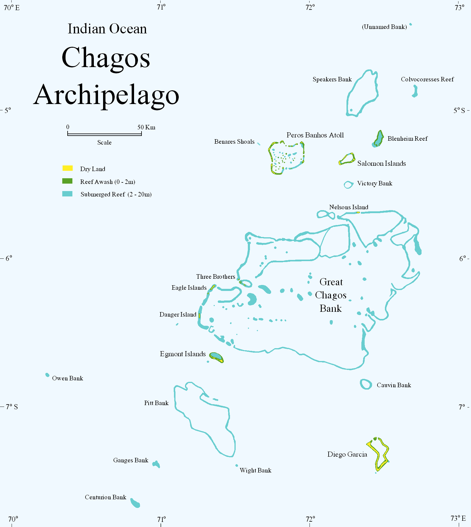 Island group map